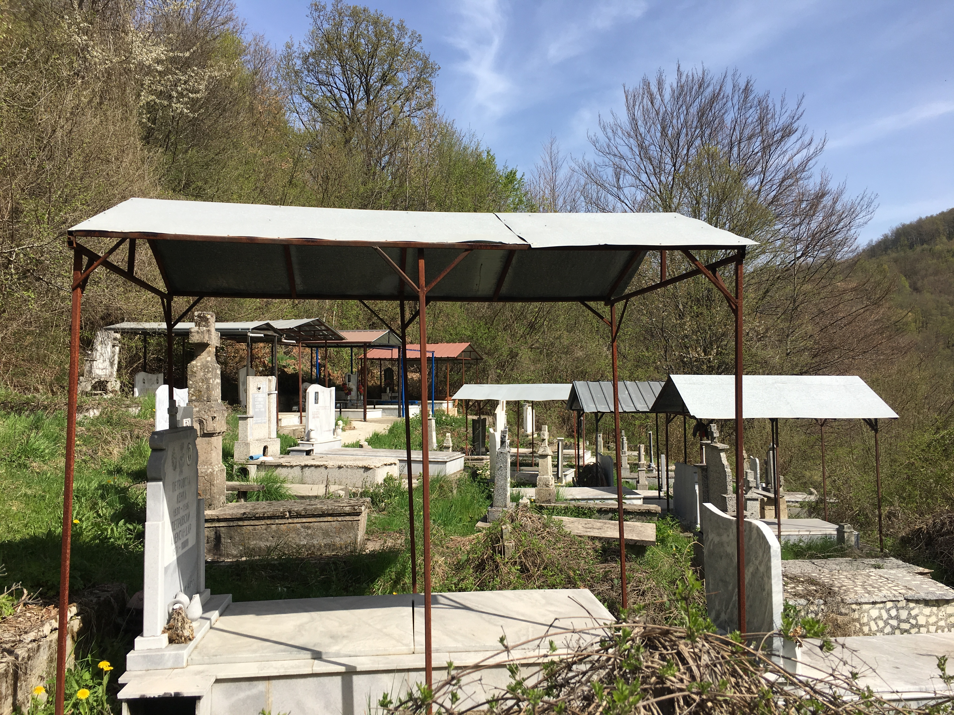 Cemetery in the village of Kostur